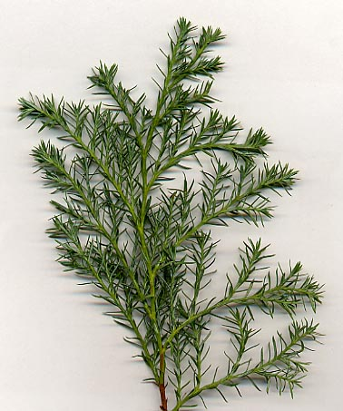 Chamaecyparis pisifera cultivar 'Boulevard', a cultivar with juvenile foliage